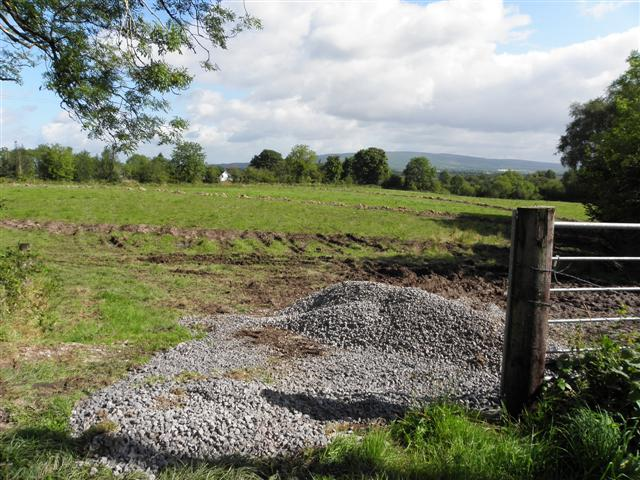 An open field, Ballymagirril